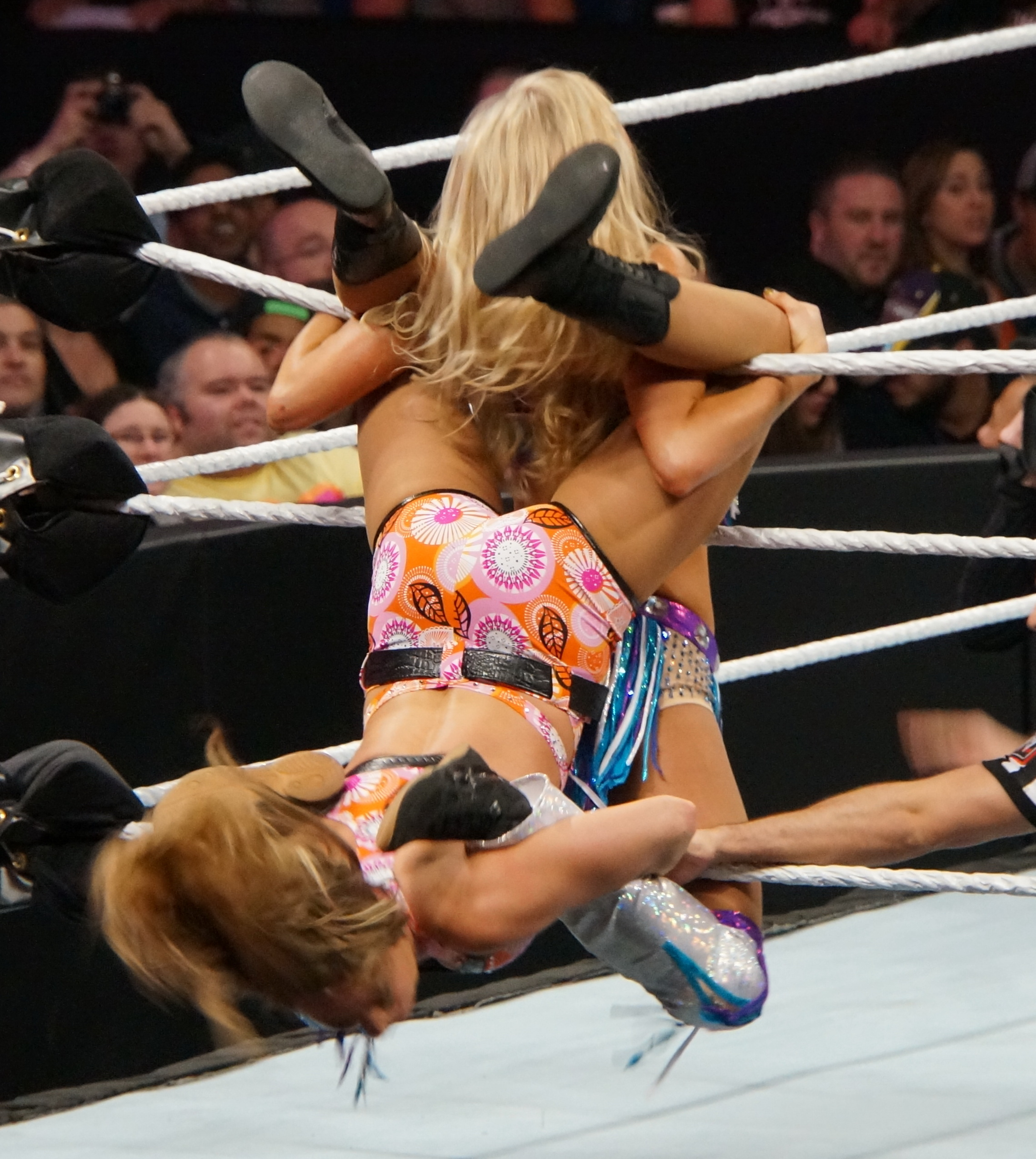 A Dil-Emma for WWE's Summer Rae as she is trapped in one of Emma's trademark submission holds during WWE Raw. Originally taken 4/7, cropped for focus.